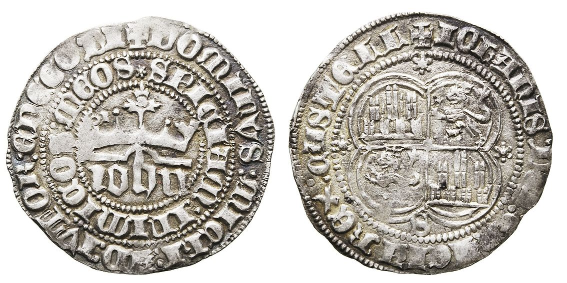 One Spanish real, in silver, from the reign of John I of Castile (1379-1390). Minted in Seville. Legends: observse “DOMINVS:MICHI:ADIVTOR:ETEGO:DI: / :SPICIAM:INIMICOS:MEOS”, short form of verse 7 of Psalm 117 “Dominus mihi adiutor: et ego despiciam inimicos meos”, around the crowned name of the king “IOHN”; reverse “IOHANIS:DEI:GRACIA:REX:CASTELL”, .i.e. “John by the grace of God king of Castile”.